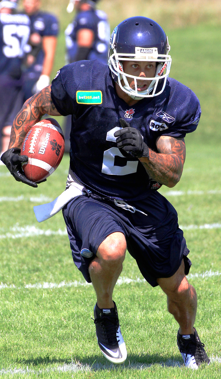 Toronto Argonauts' Chad Owens, during practice session September 2012.